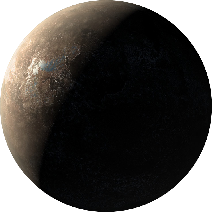 Artist's impression of the exoplanet Proxima Centauri b on a transparent background.